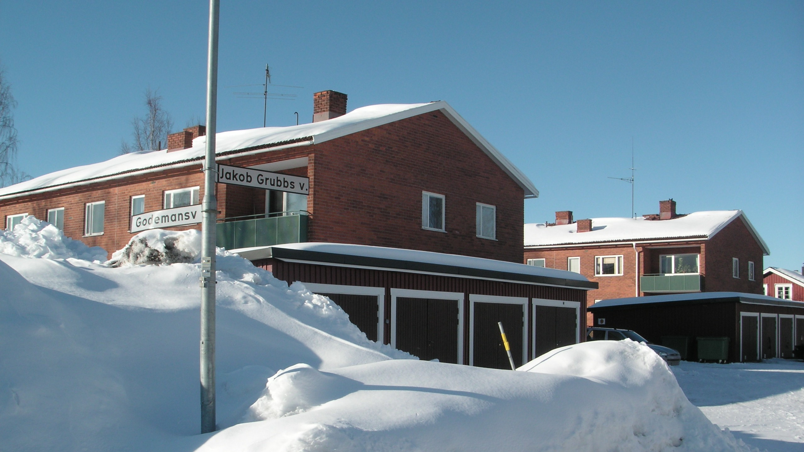 Apartment buildings on Jakob Grubbs väg (street), Umeå, Sweden.